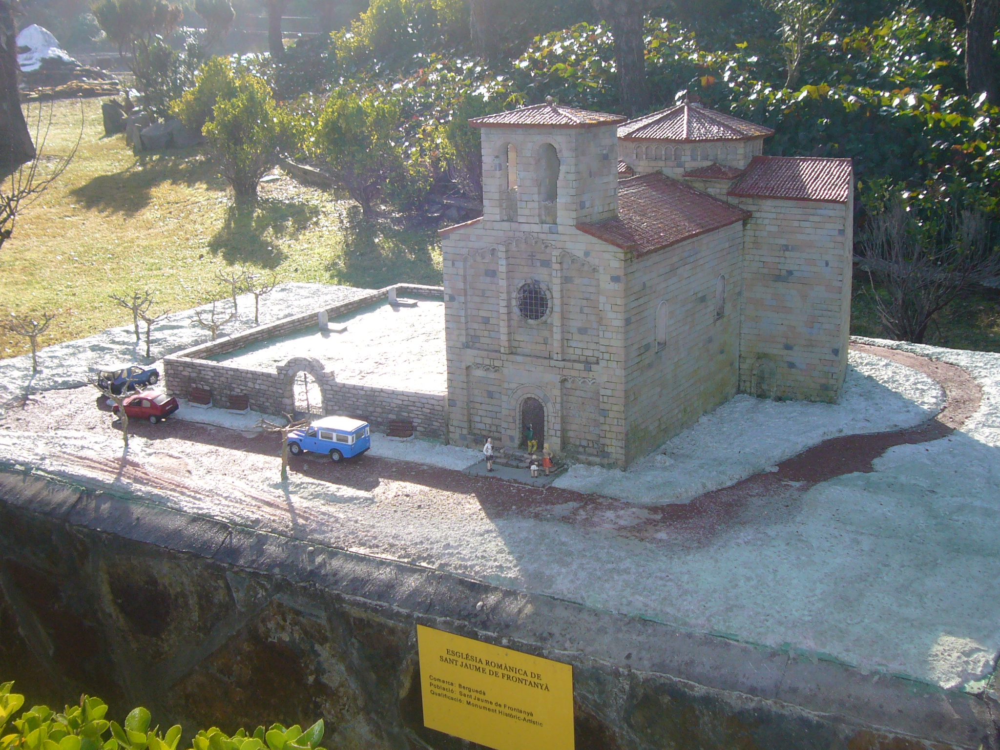 Scale model at the "Catalunya en Miniatura" miniature park : Church of the monastery of Sant Jaume de Frontanyà